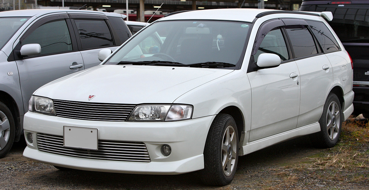 Nissan Wingroad Rider ( Y11, early )